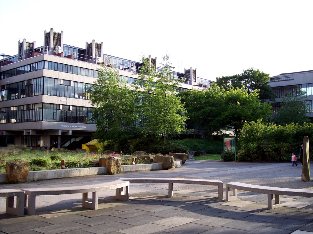 University of Leeds: Garstang Building